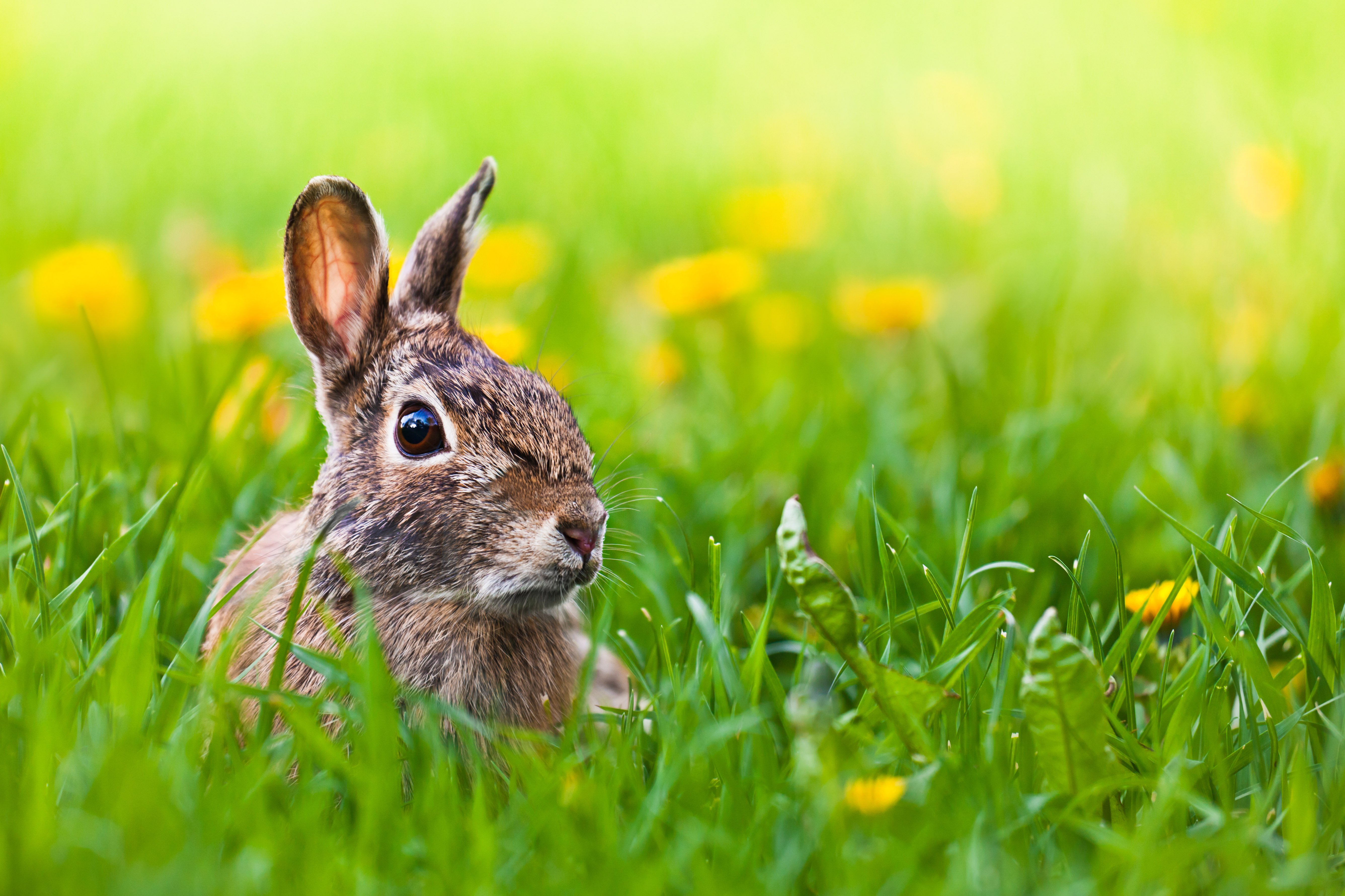 The easter bunny paid a little visit to the backyard today, even though easter was about a month ago.... and he didn't even bring me chocolate eggs!!! lol I was actually just procrastinating from studying for my upcoming exam and ended up walking around in the backyard when this little guy showed up. I had to be really careful and quiet so he wouldn't run away before I could get close enough to get a proper picture. I had to lie face down on the grass to take this picture and I didn't realize that the grass was still kinda wet (ok it was a LOT wet) from the rain a couple hours ago, and my clothes were soaked after taking the picture :S I felt like Elmer Fudd trying to stalk the wabbit... lol.